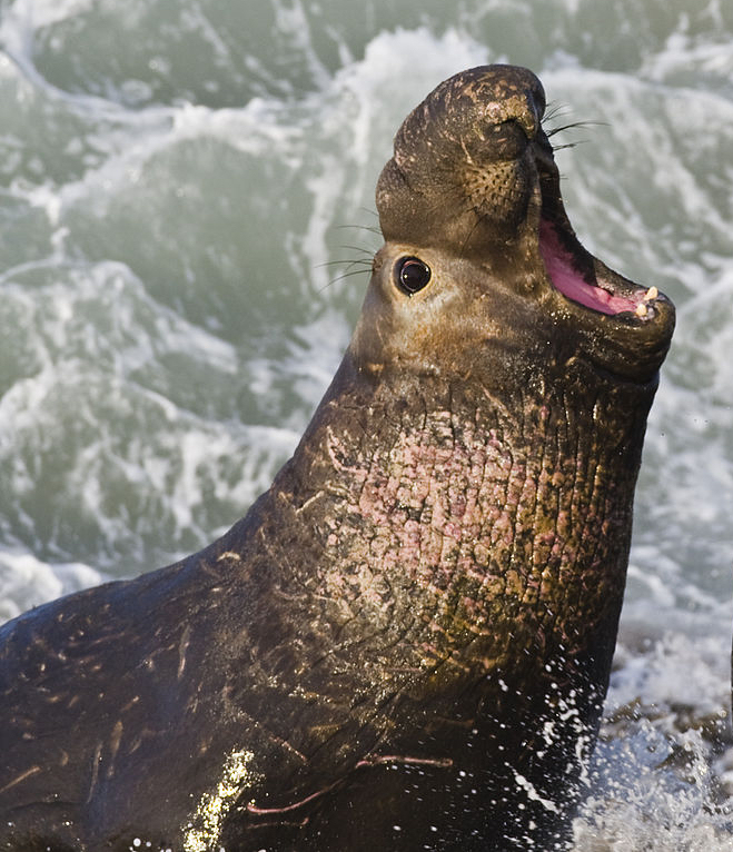 Northern Elephant Seal (Mirounga angustirostris), Piedras Blancas, San Simeon, CA 02feb2008 - photo by Michael "Mike" L. Baird Canon 1D Mark III w/ 600mm f/4 IS lens on tripod